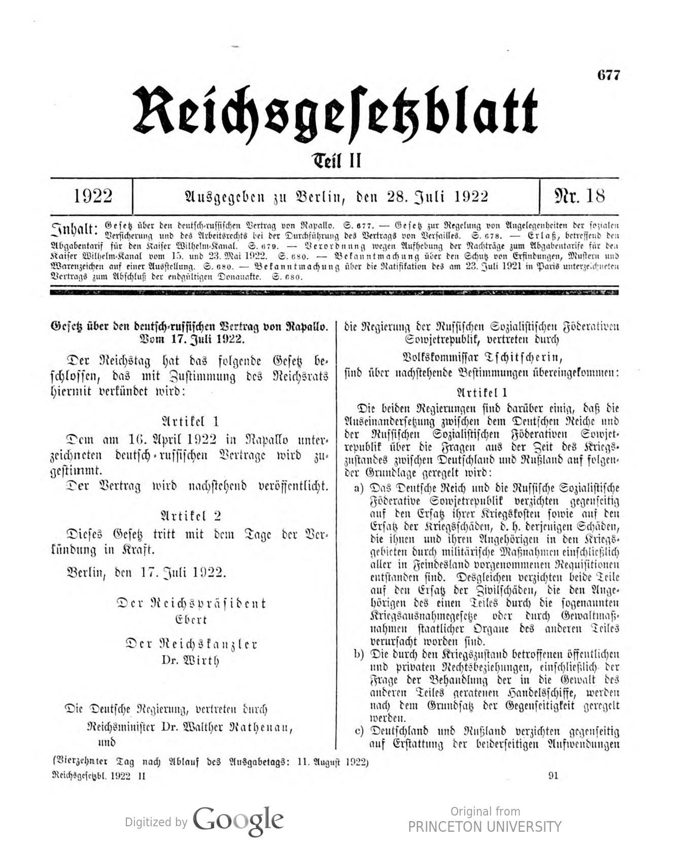 Scan from the Imperial Law Gazette of Germany, 1922, part 2